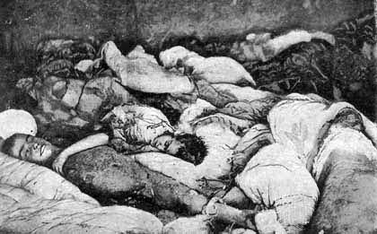 Armenian children, victims of the Turkish assault